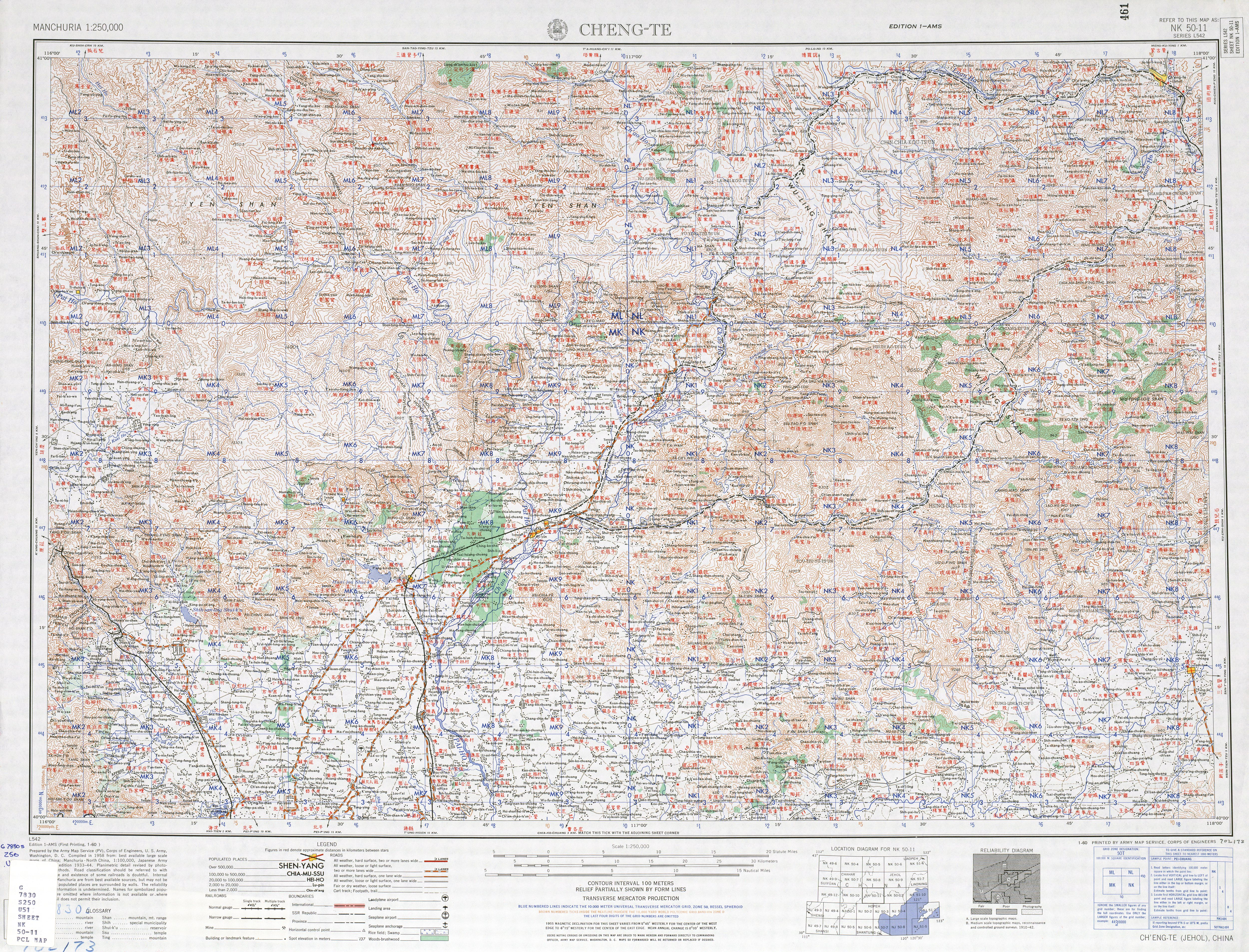 Manchuria AMS Topographic Maps NK50-11 including Chengde and northern Beijing